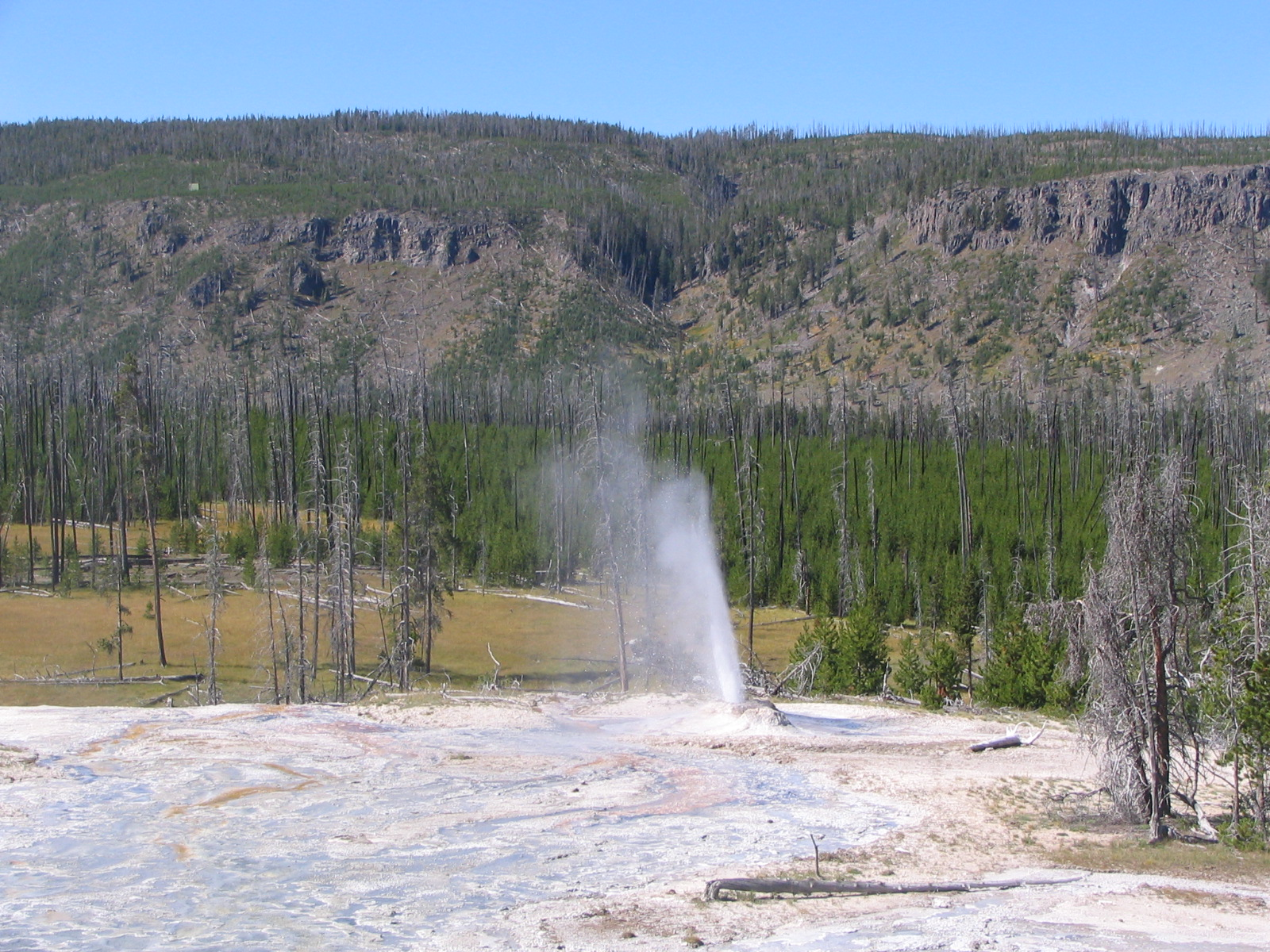 Image of Atomizer Geyser in the Upper Geyser Basin (Old Faithful area) of Yellowstone National Park